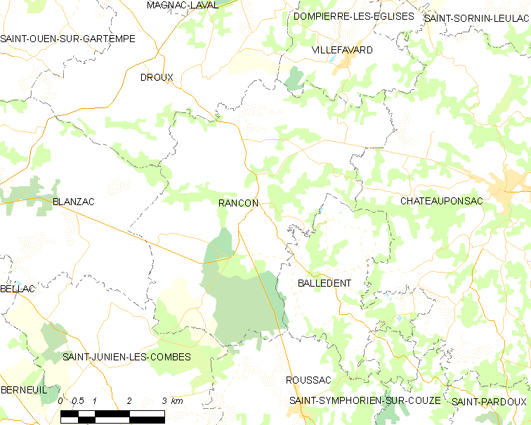 Map of French municipality Rancon